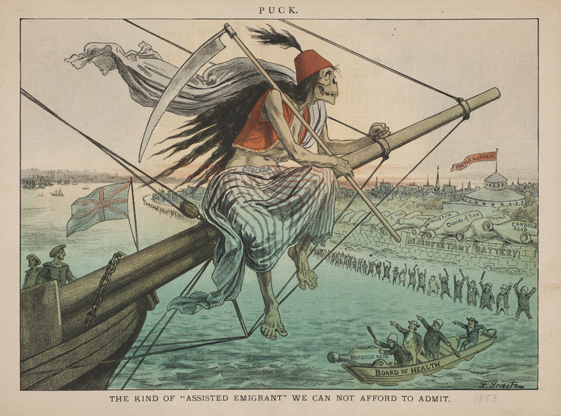 "The Kind of assisted emigrant we can not afford to admit" political cartoon by Friedrich Graetz (April 3, 1842, Frankfurt am Main - November 28, 1912 Vienna, Austria) A skeletal figure in Turkish clothing, carrying a scythe, with a belt labeled “cholera,” sails toward land, while a battery armed with the disinfectant carbolic acid and a line of men place themselves between land and the immigrant’s ship. This cartoon was published in PUCK Magazine on July 18, 1883. The cartoonist Friedrich Graetz worked for PUCK magazine from 1882-1885.